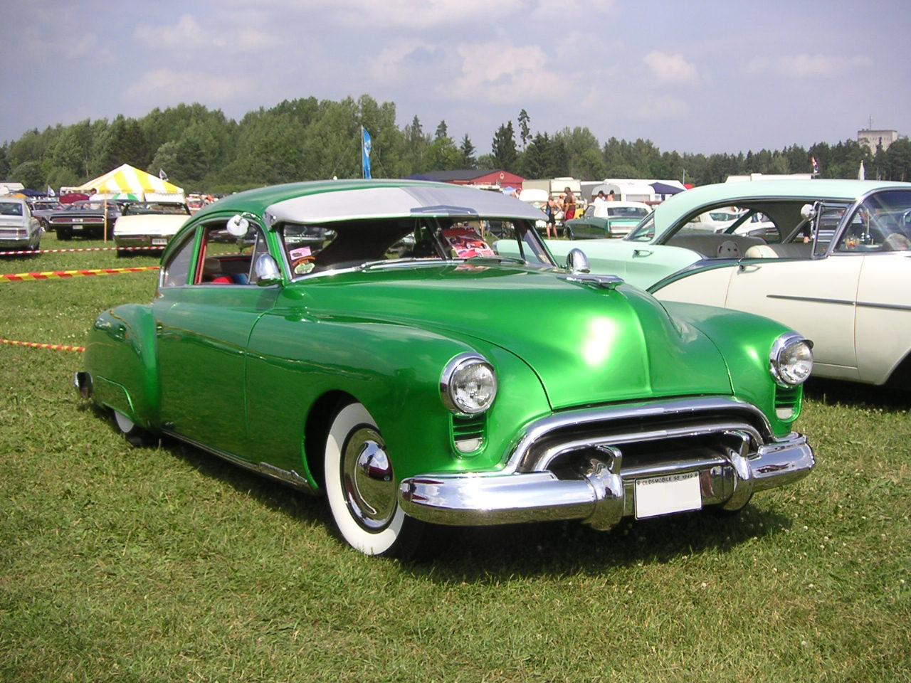 Customized 1949 Oldsmobile 98 at Power Big Meet 2006, Västerås, Sweden